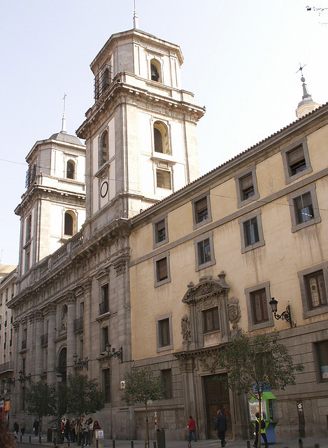 Colegiata de San Isidro (Collegiate Church of St. Isidore) in Madrid (Spain). Building was projected in 1620 by Pedro Sánchez and built between 1622 and 1664 in a Baroque style; altered from 1767 to 1769 by Ventura Rodríguez; seriously damaged by a fire in 1936; rebuilt and restored by Javier Barroso Sánchez-Guerra in the 40's.